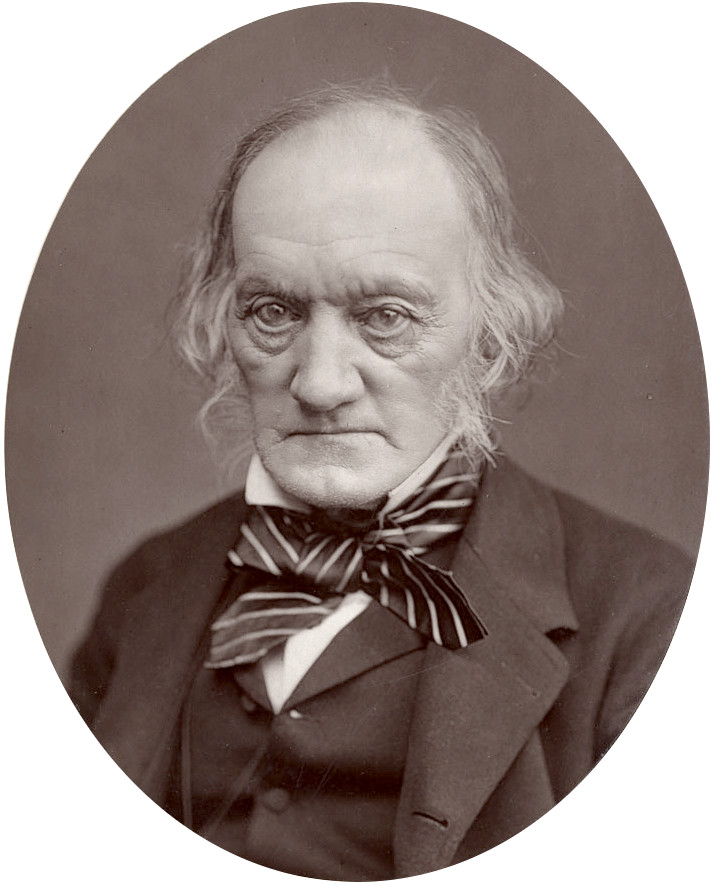 Richard Owen (20 July 1804 – 18 December 1892)